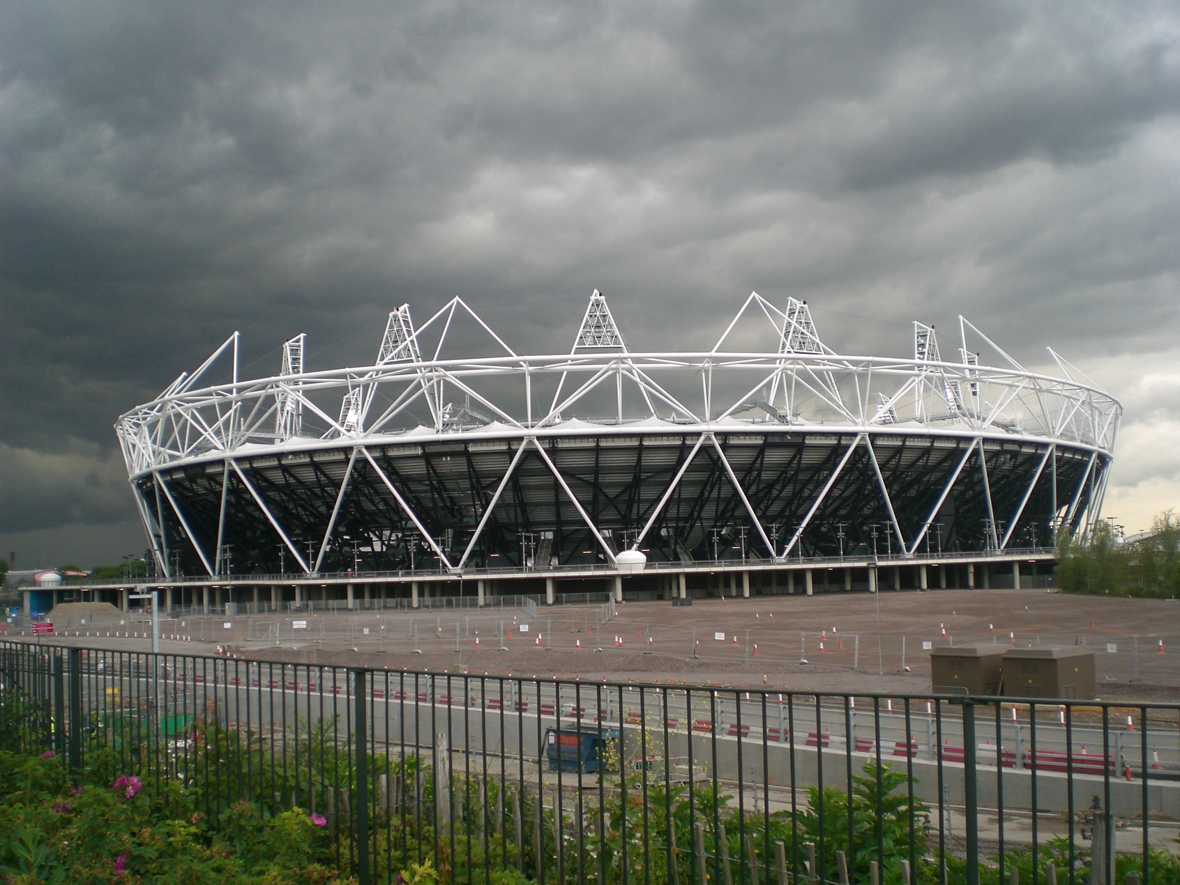 After the Games, the main stadium will be converted into a 60,000-seat football stadium and become the home of West Ham United FC.